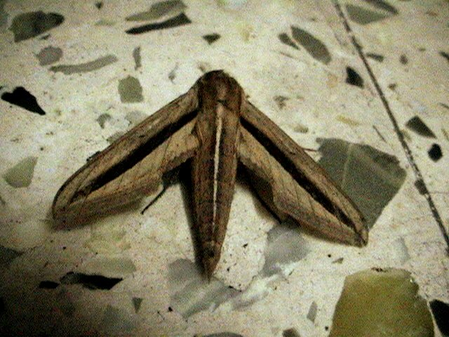 Theretra oldenlandia (family spingidae)